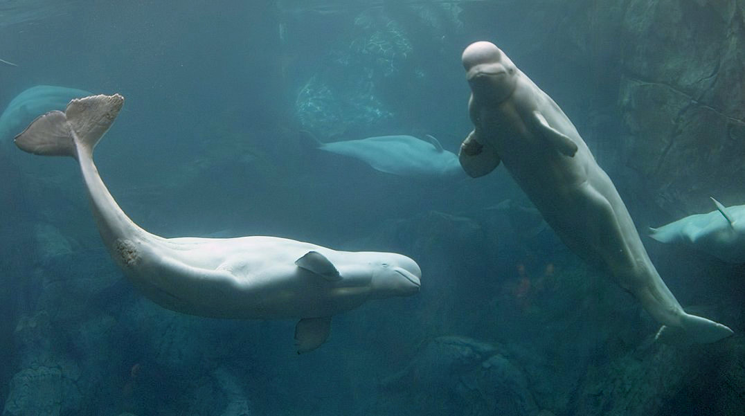 Four of the five Beluga Whales (Delphinapterus leucas (Pallas, 1776)) at the Georgia Aquarium in January 2006.